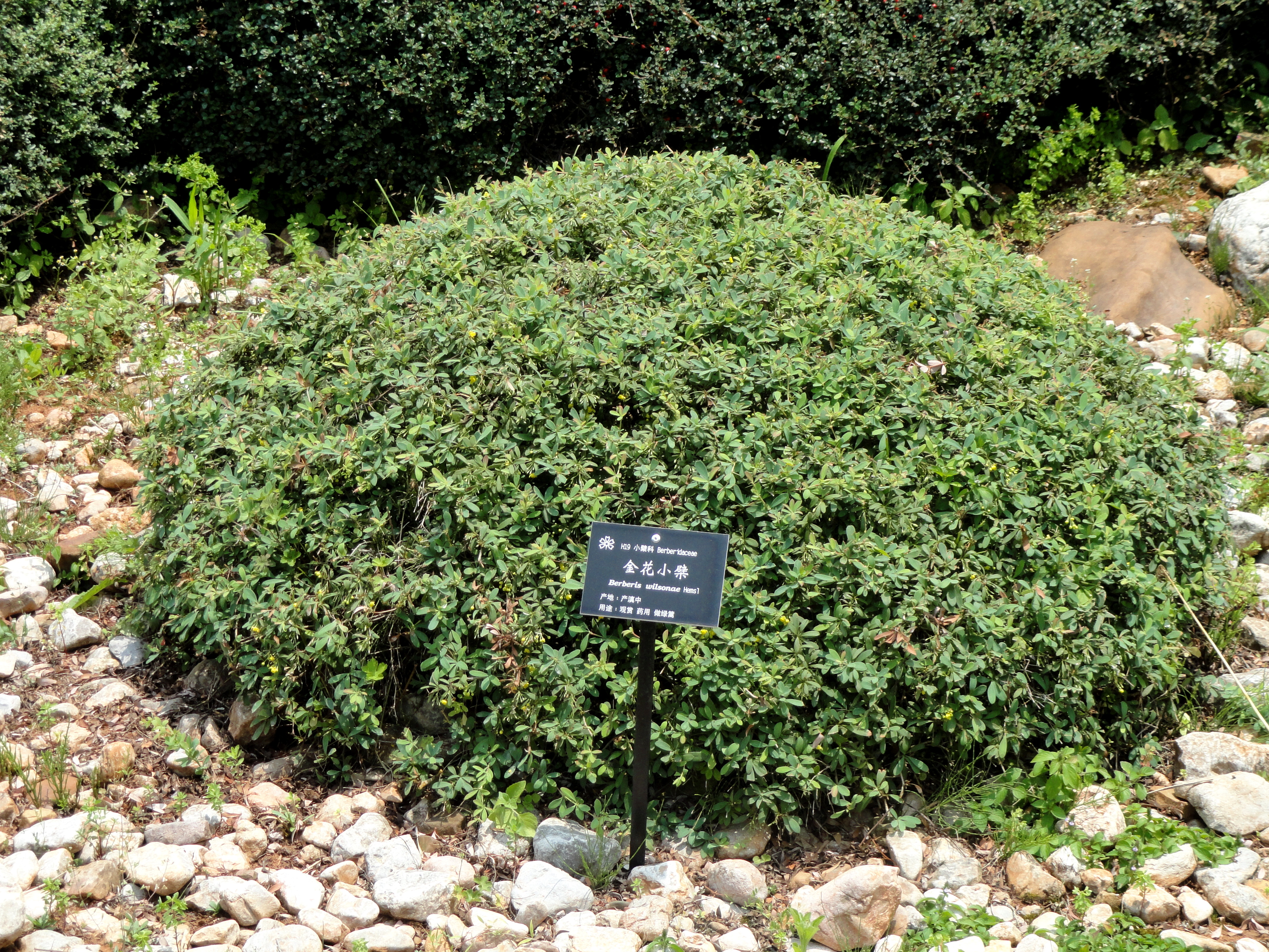 Plant specimen in the Kunming Botanical Garden, Kunming, Yunnan, China.